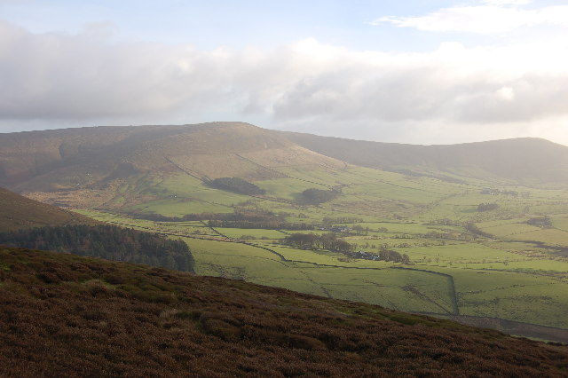 Fair Snape & Parlick This photo was taken from the new right of access path from Stang Yule to Fiendsdale Head. The right to roam act has given us access to areas of the Bowland Fells that we could not visit before.